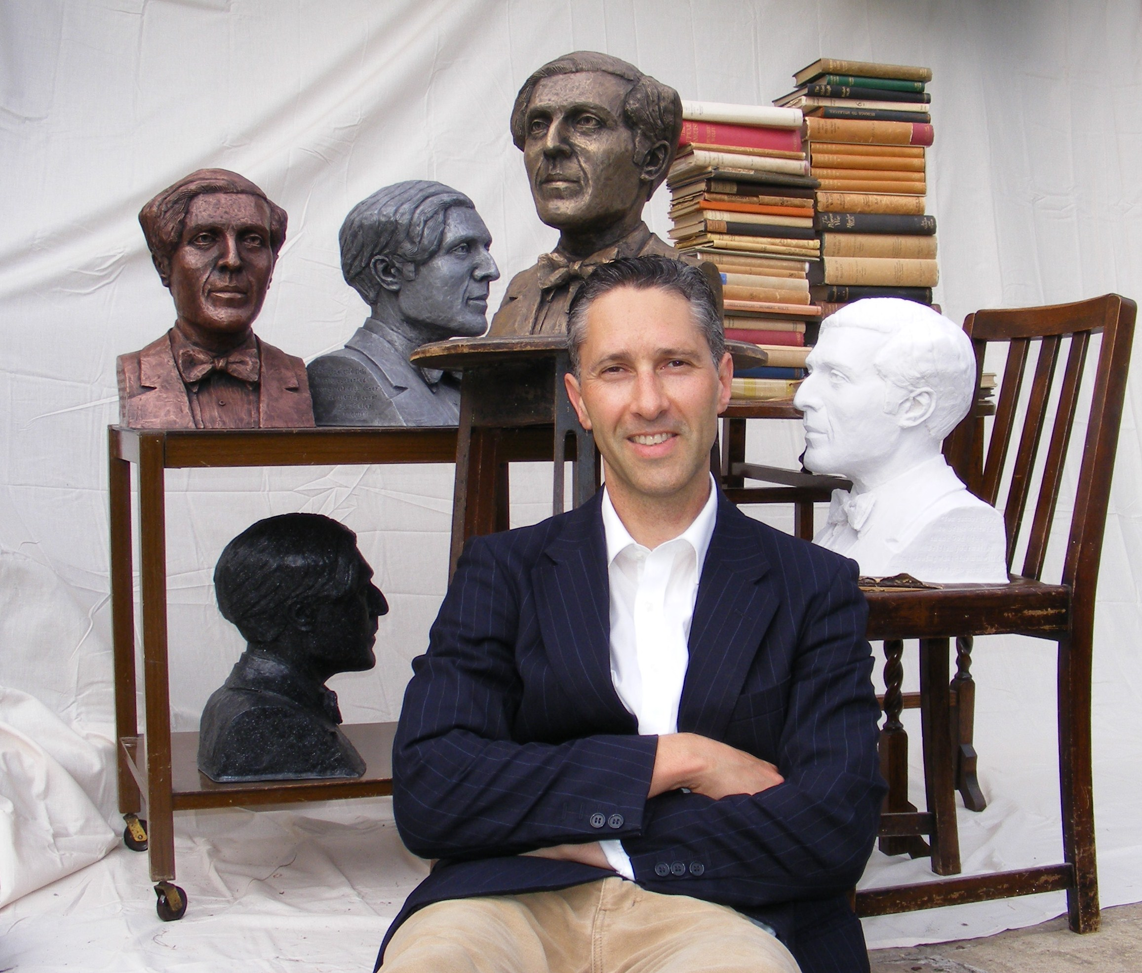 An image of the 5 sculptures of Humbert Wolfe by the artist Anthony Padgett. The heads are located in Eccleston Square Gardens, Wadham College in Oxford University, Bradford Grammar School, Bradford Library and the Berg Collection in New York Public Library. Copyright Anthony Padgett who has uploaded the image. Please do not delete.